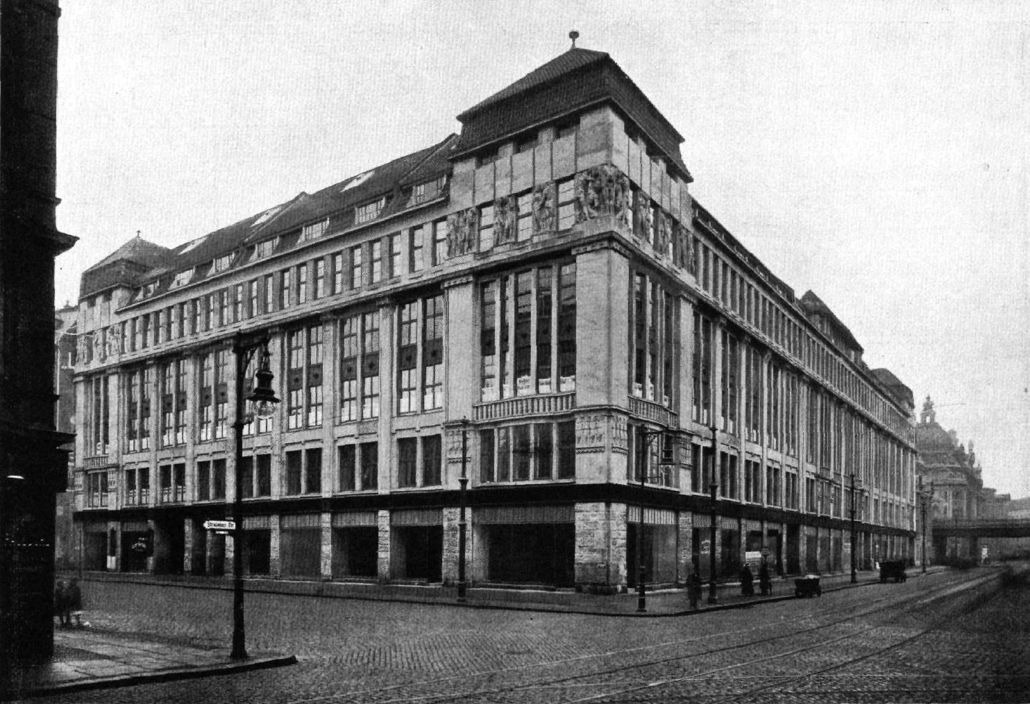 The Schicklerhaus at the corner of Schicklerstraße (on the right) and Neue Friedrichstraße (now Littenstraße) in Berlin-Mitte after construction was completed in 1910. Here seen from Stralauer Straße.